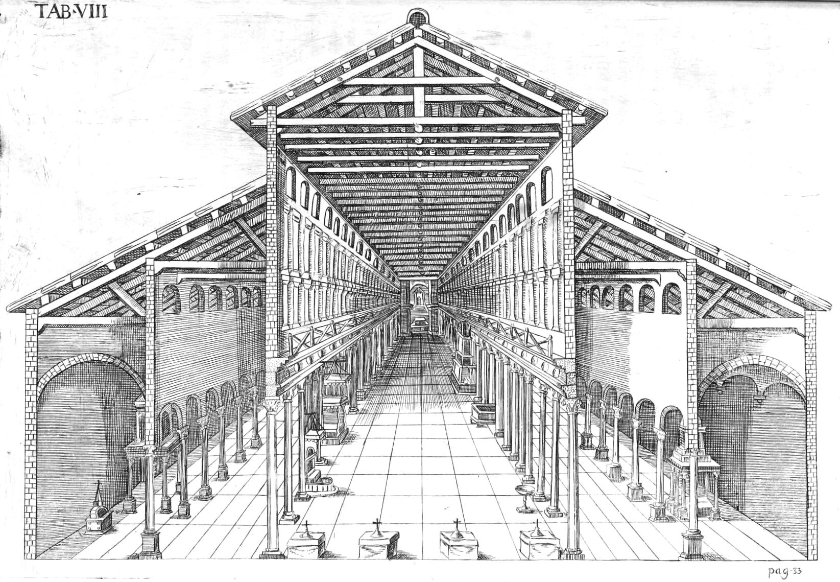 Engravings of (old) Saint Peter's Basilica in Rome.